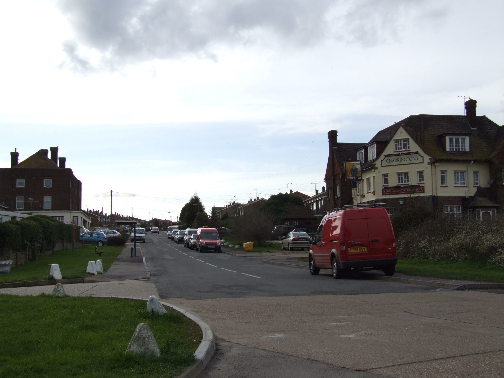 Allhallows, Kent is a village on the Hoo Peninsula. It is divided into two parts Hoo Allhallows and Allhallows on sea. This is the British Pilot pub in Allhallows on Sea.